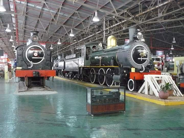 Outiniqua Transport Museum